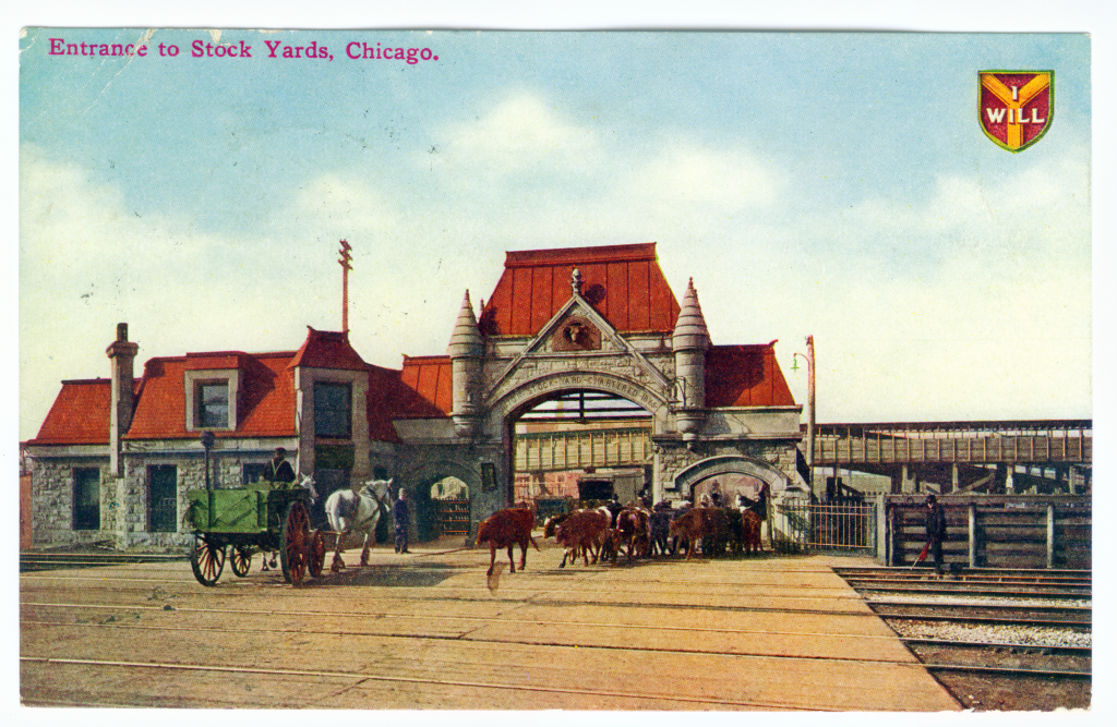 Entrance to Chicago Stockyards. Postcard c. 1910. No copyright notice front or back